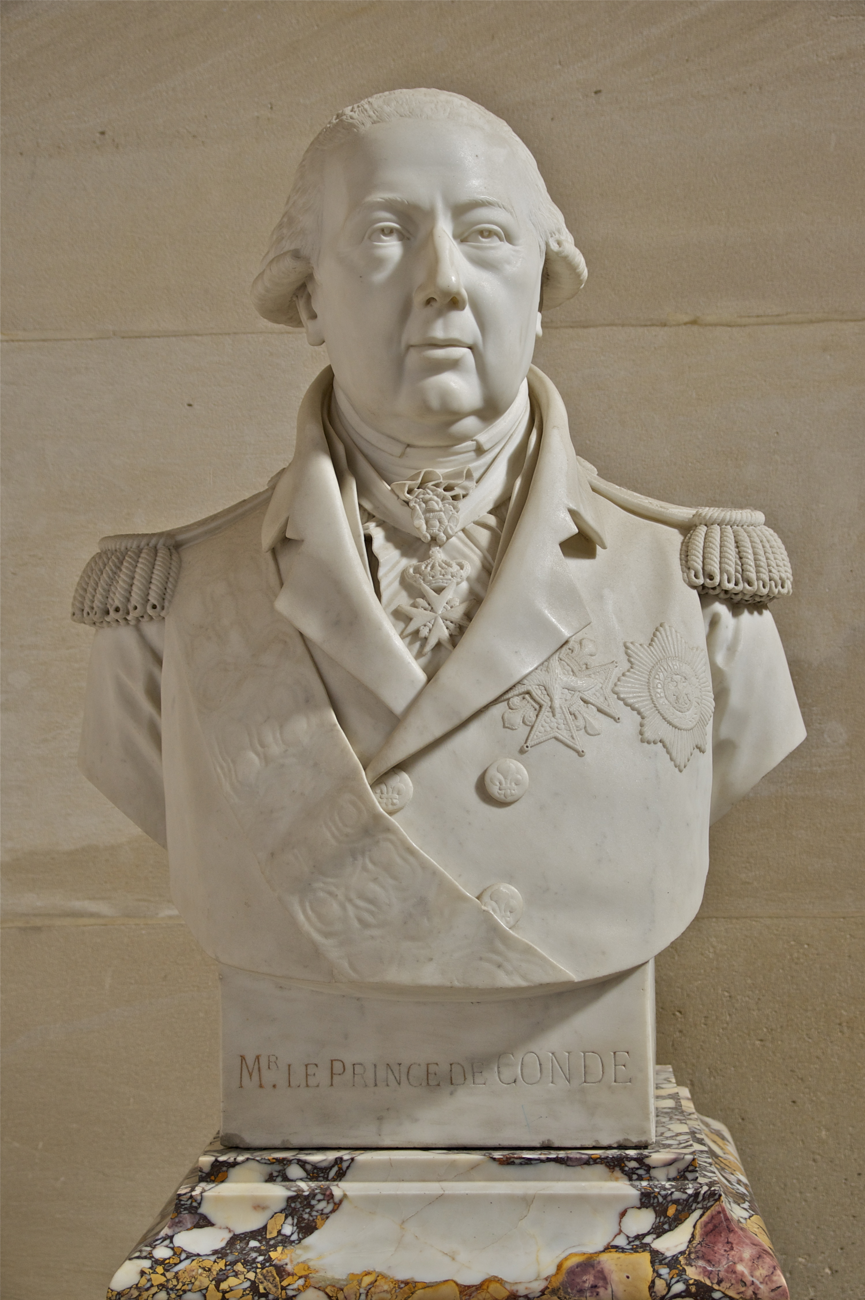 Bust of Louis, Prince of Condé (1736-1818).